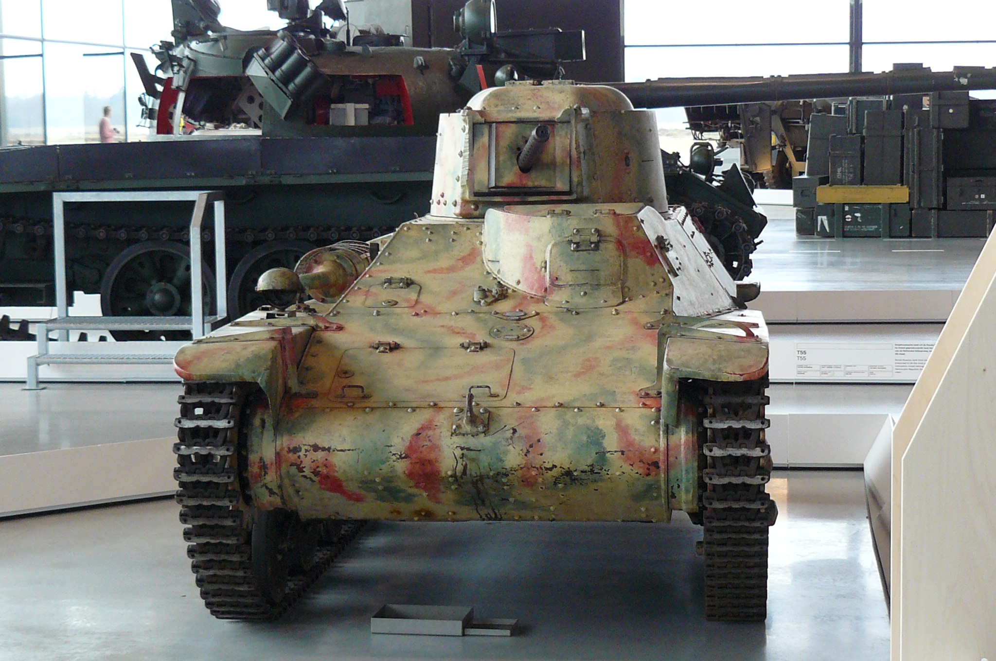 Type 97 Te Ke in the Dutch Nationaal Militair Museum